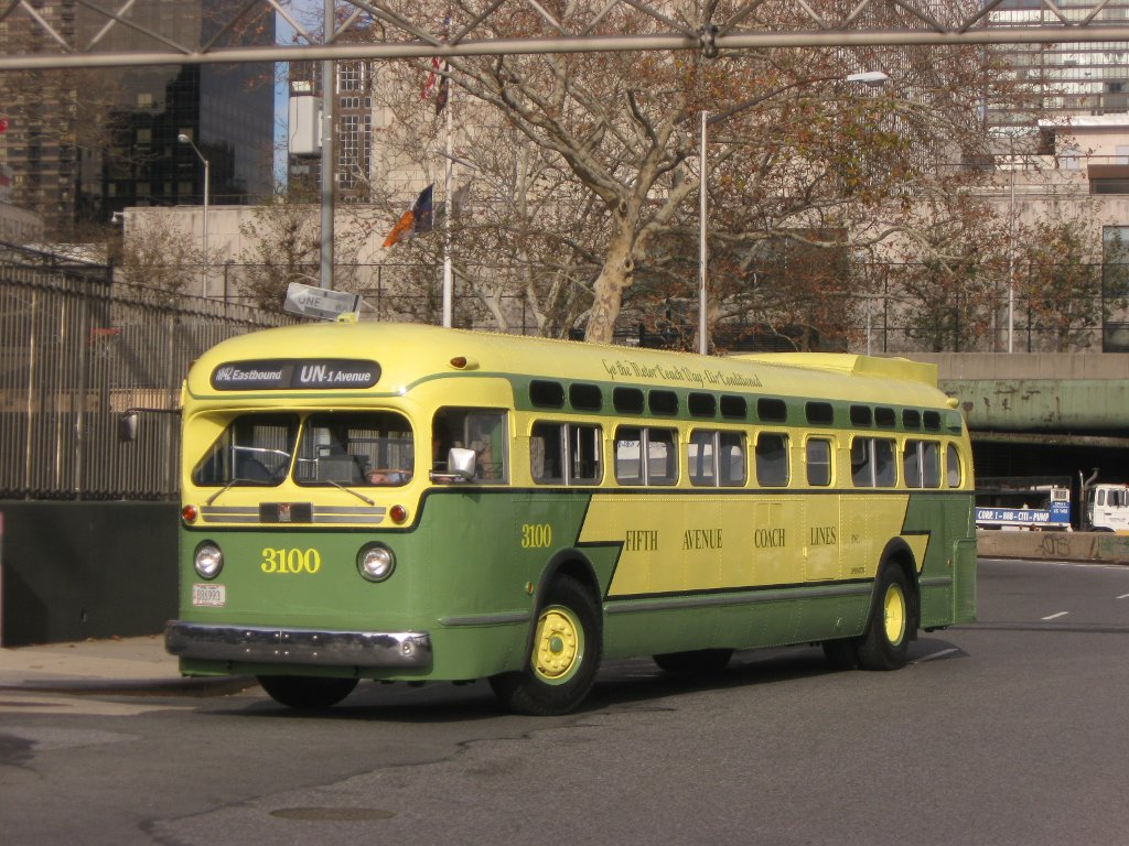 NYC Transit Authority GM TDH-5106 #3100, labeled as Fifth Avenue Coach Lines, turns around by the United Nations to start a westbound trip on the M42.